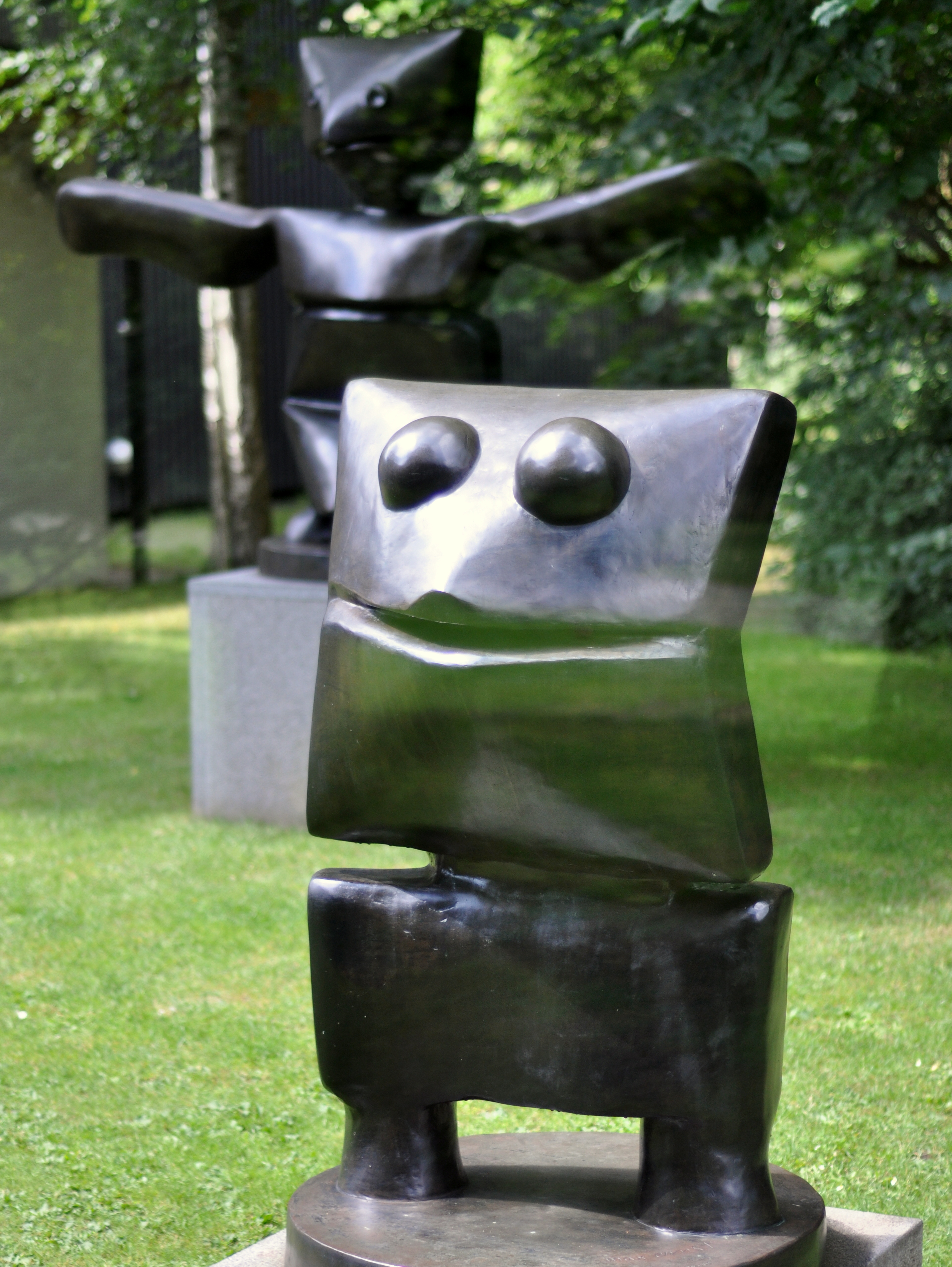 Lousiana Art Museum, Humlebaek, DenmarkThe Louisiana Museum of Modern Art is an art museum located directly on the shore of the Øresund Sound in Humlebæk, 35 km (22 mi) north of Copenhagen, Denmark. It is the most visited art museum in Denmark[2] with an e